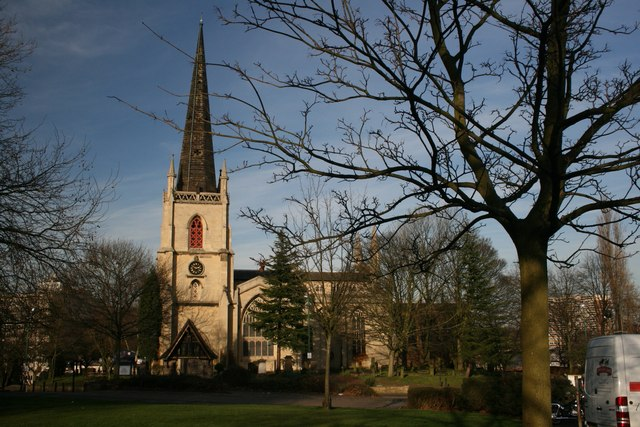 St Matthew's parish church, Church Hill, Walsall, West Midlands